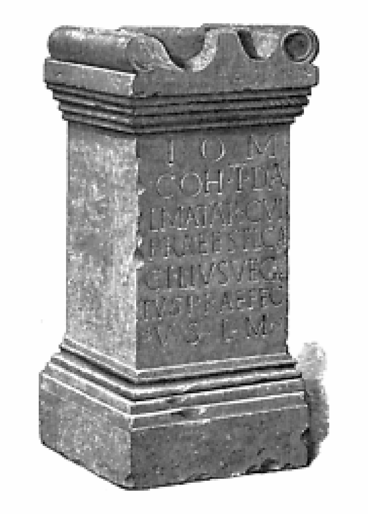 Altar dedicated to Jupiter Optimus Maximus by Lucius Caecilius Vegetus, prefect Coh. I Delmatorum, found 1870 about 320 m. north-east of the roman fort at Maryport (Senhouse Museum).